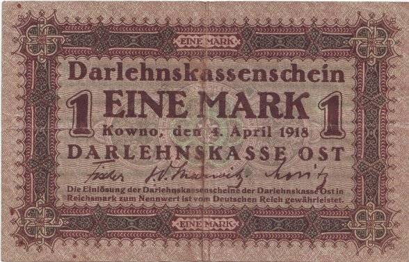 "Eine Mark" of "Darlehnskasse Ost". Scan of banknote (printed in 1918), in use from April until December 1918 in a part of Russia that was occupied by the Germans (and afterwards in Lithuania until October 1922).